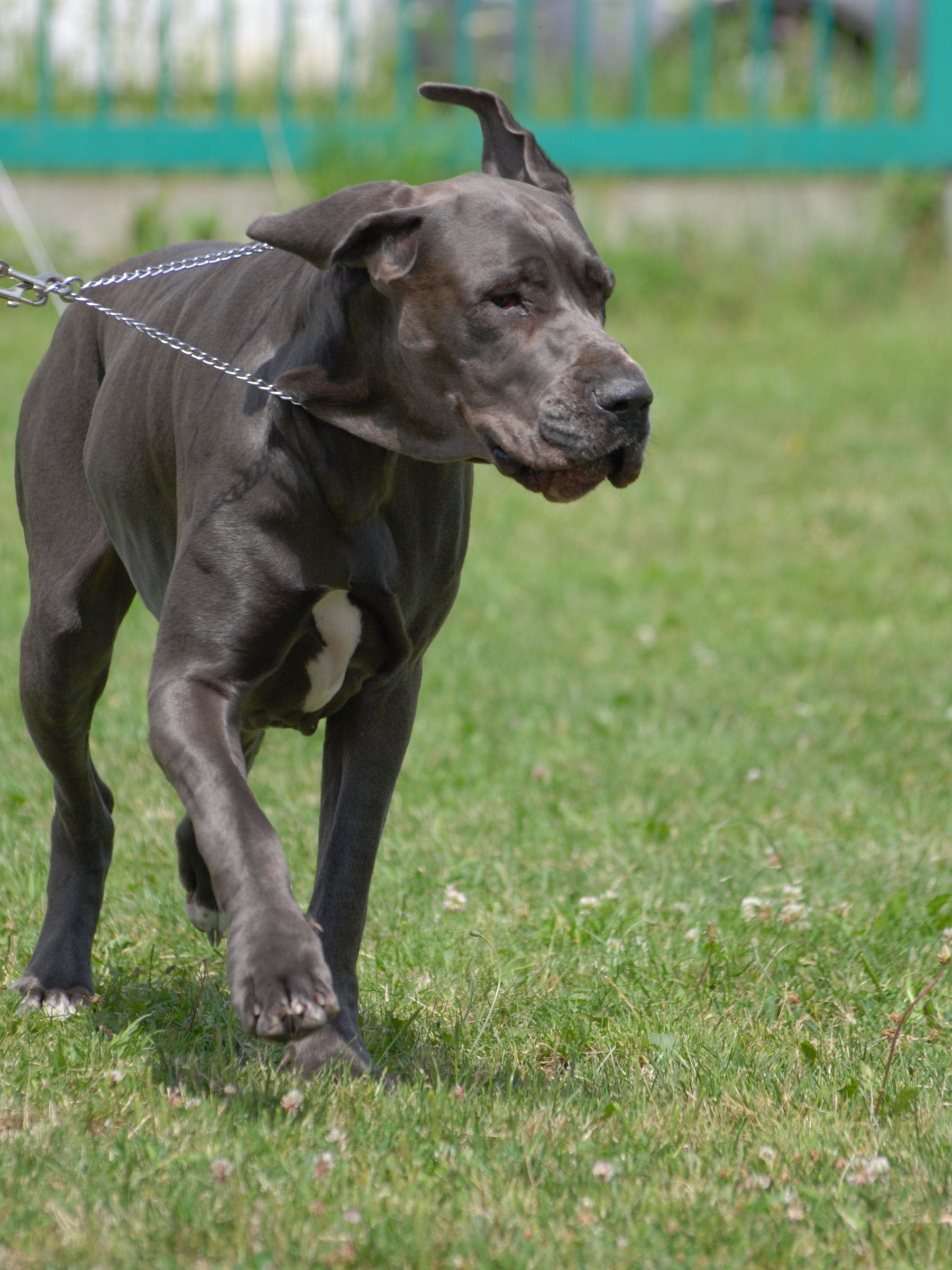 Great Dane XXXIII dogs show in Ustroń, Poland